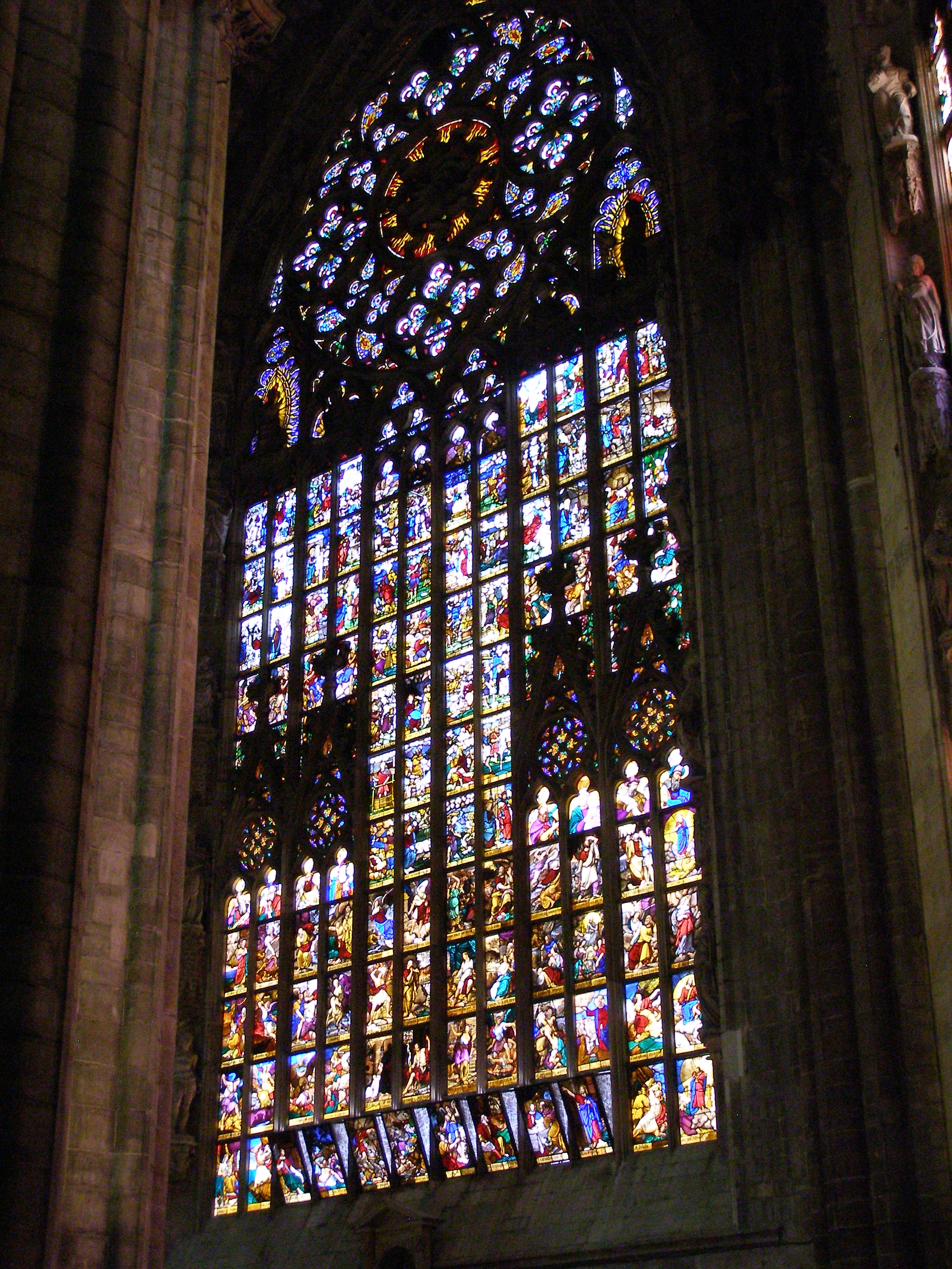 Milan - cathedral - stained glass window in the apse